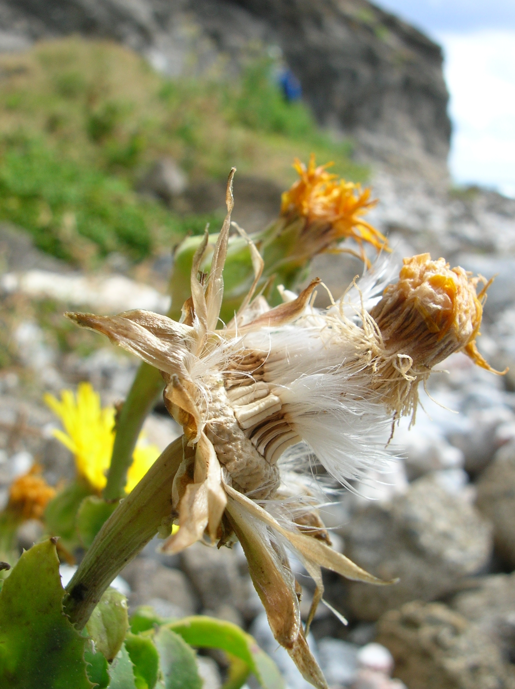 Reichardia picroides (seedhead). Location: Oahu, Manana